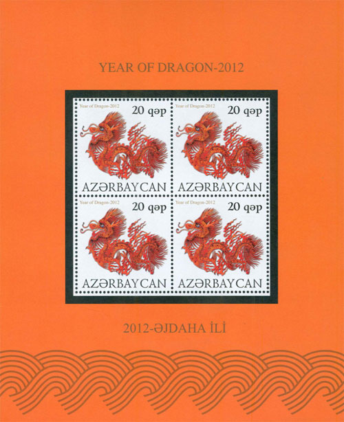 2012 - Year of the Dragon.